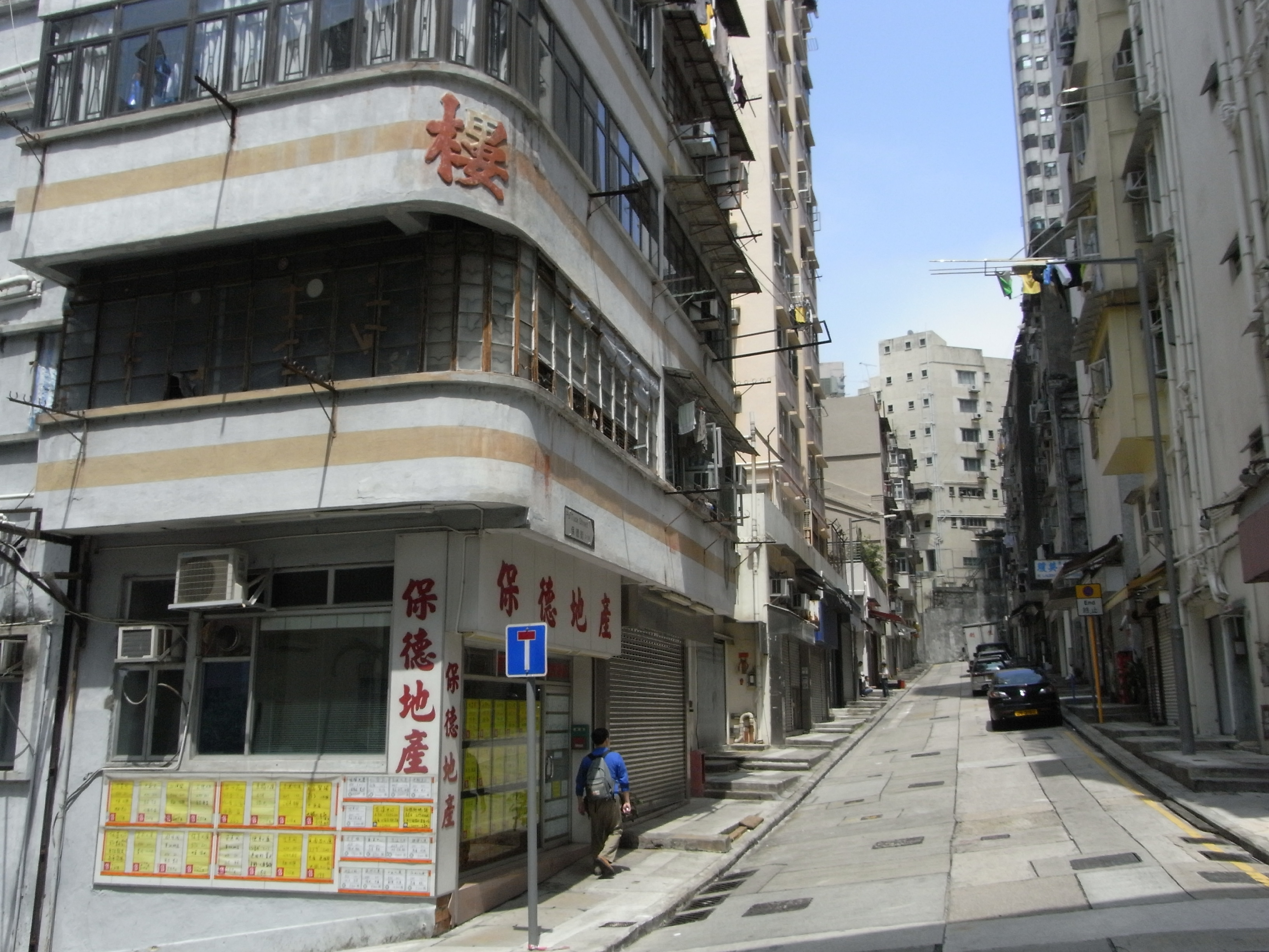 香港島西環石塘咀 山道 & 保德街 保德大樓